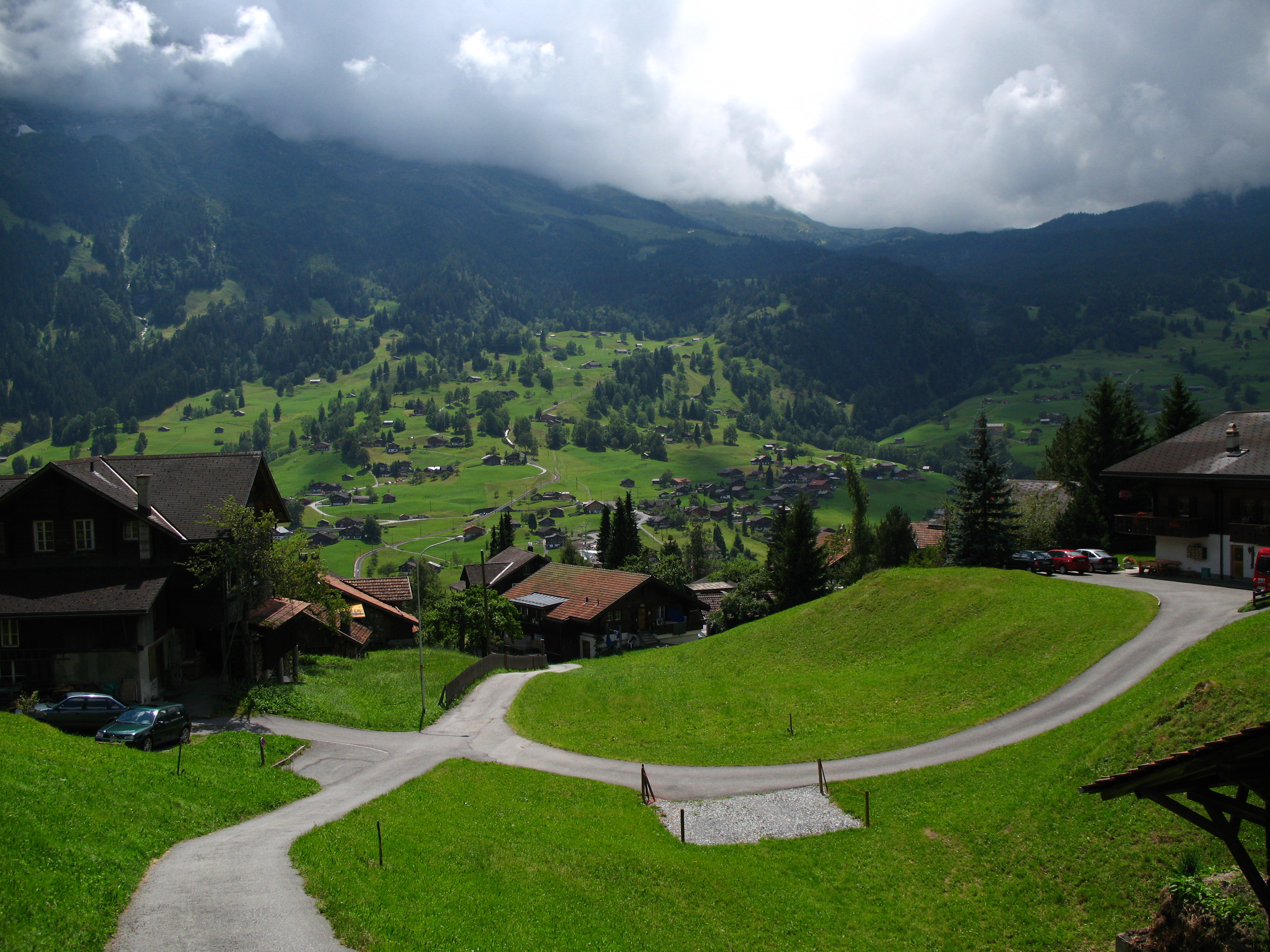 View from In der WeidGrindelwald, Switzerland